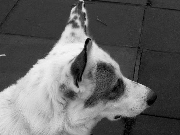 Example of an Ink Marked Utonagan